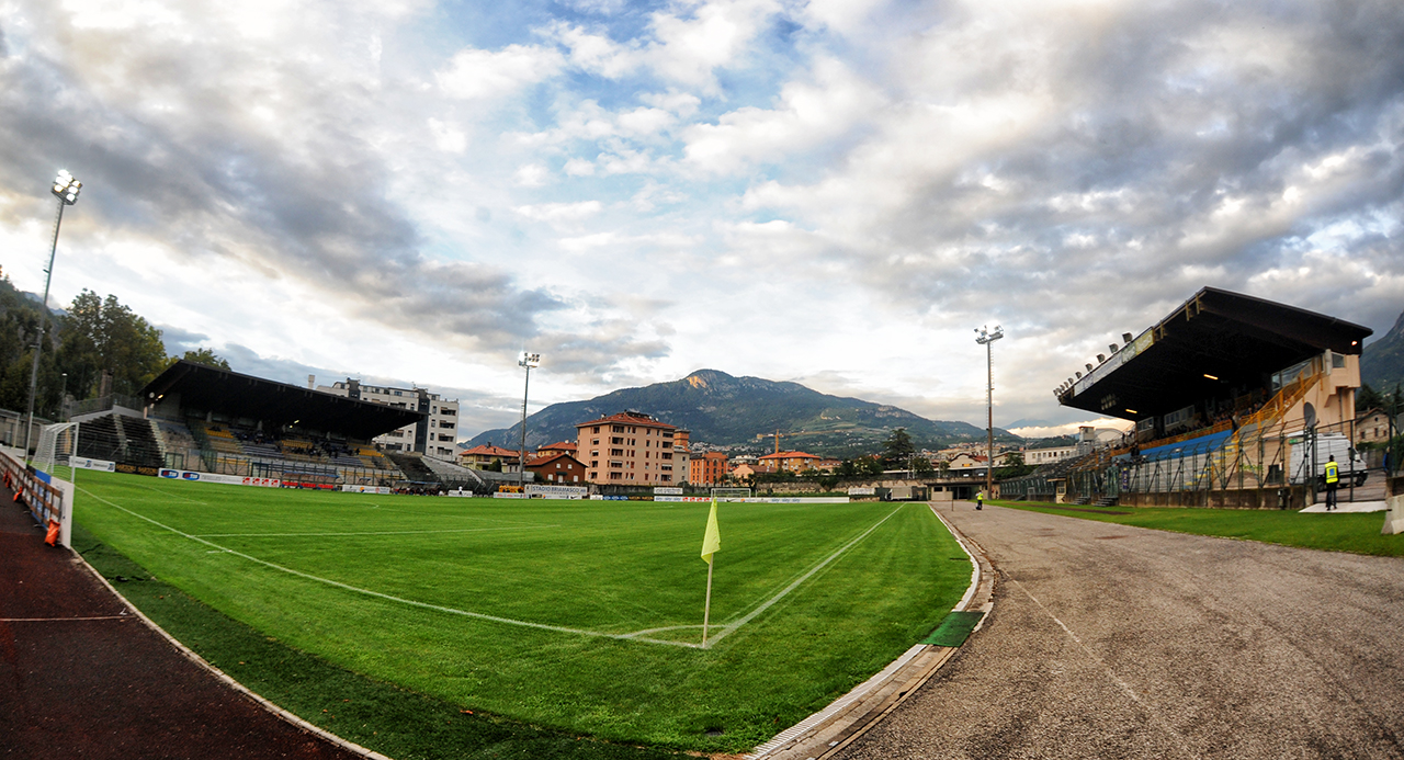 Stadio Briamasco in Trento, Trentino-Alto Adige/Südtirol, Italy